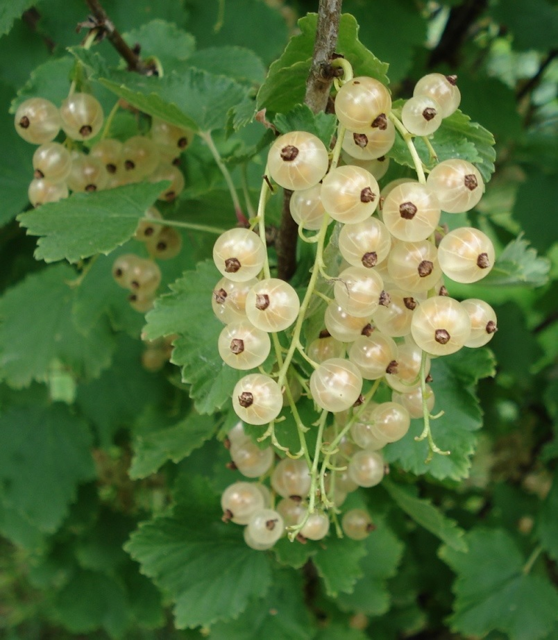 White currant fruits